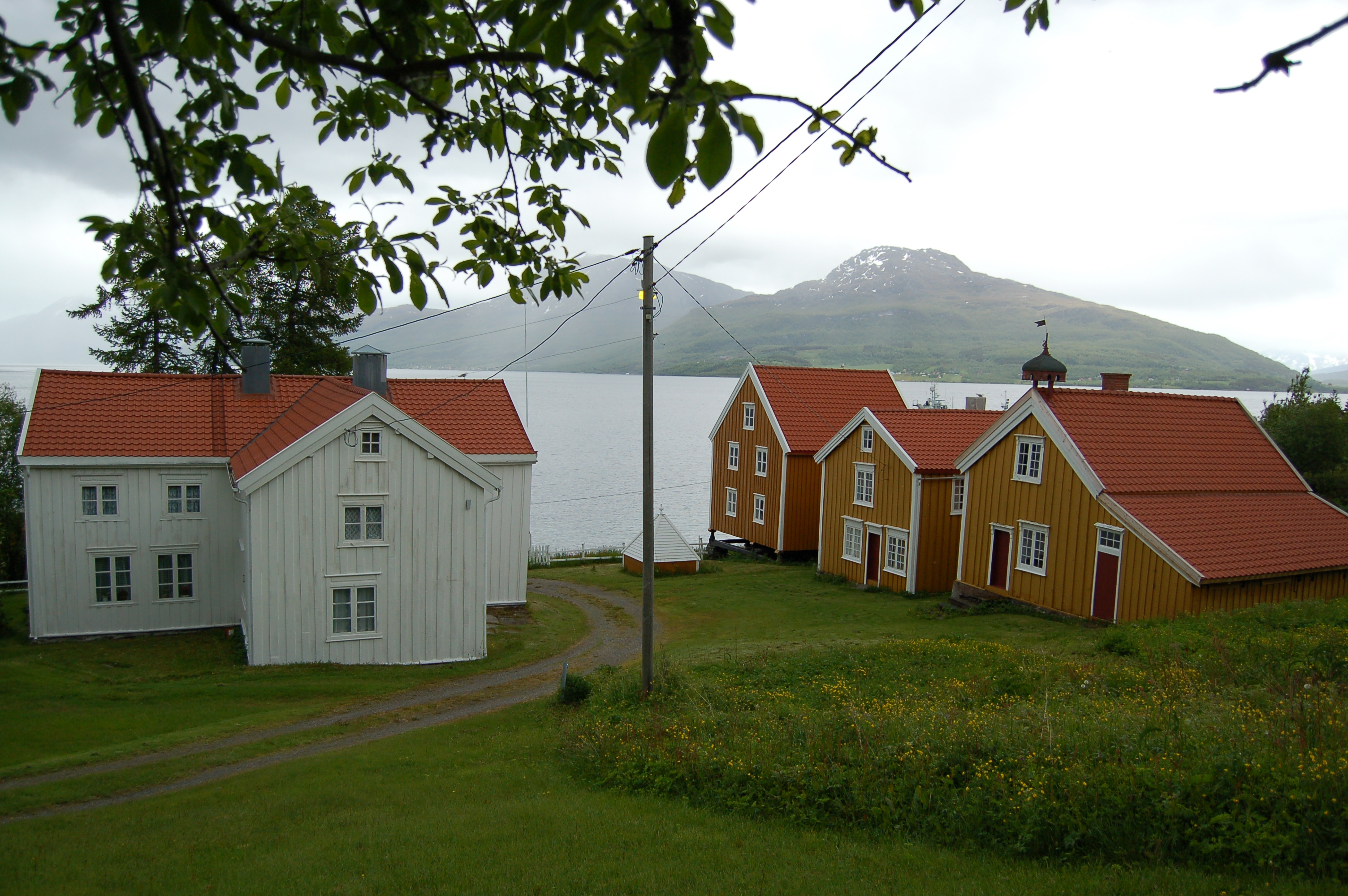 Hamnvik, Rolla